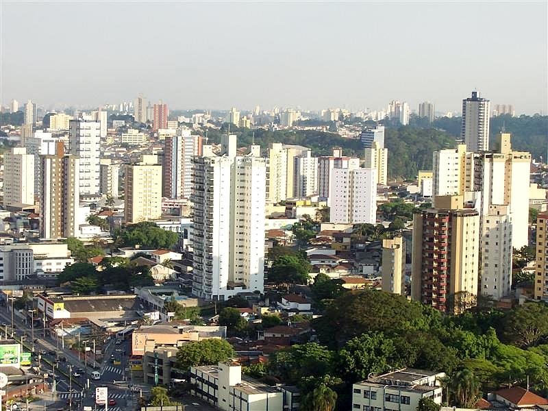 Photo of Osasco. Taken by me.